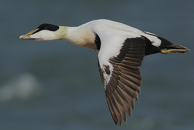 A drake Common Eider in flight. Image taken at Fife Ness, Fife, Scotland.